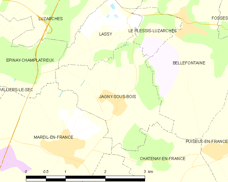 Map of French municipality Jagny-sous-Bois